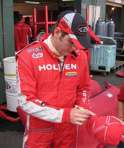 Todd Kelly at Hidden Valley Raceway.